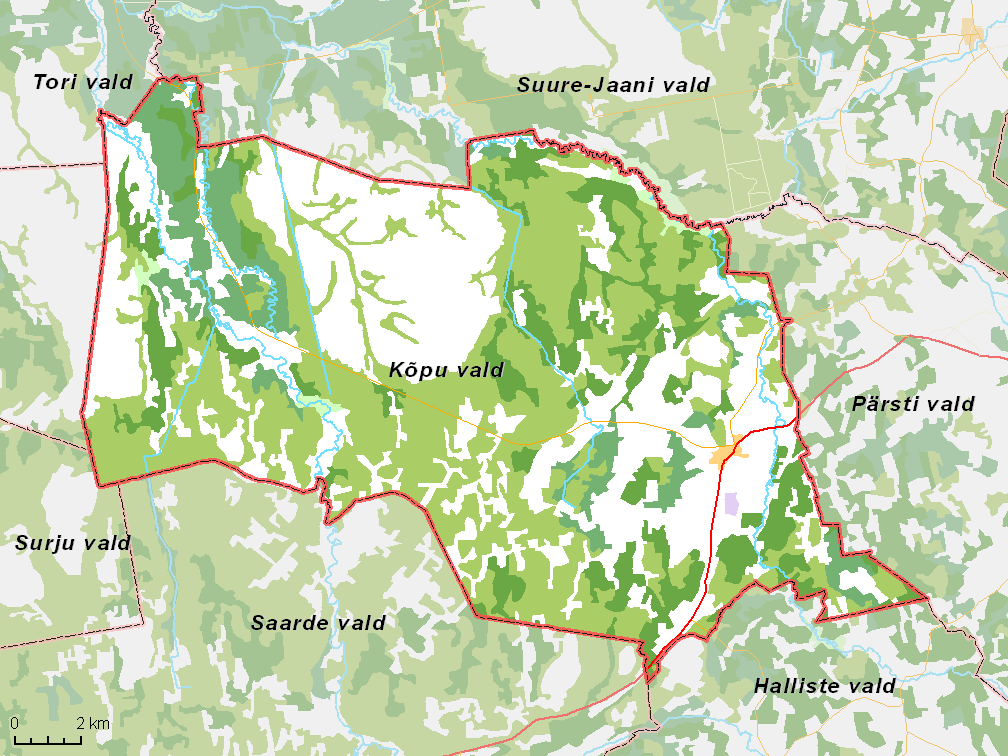 Map of municipality in Estonia